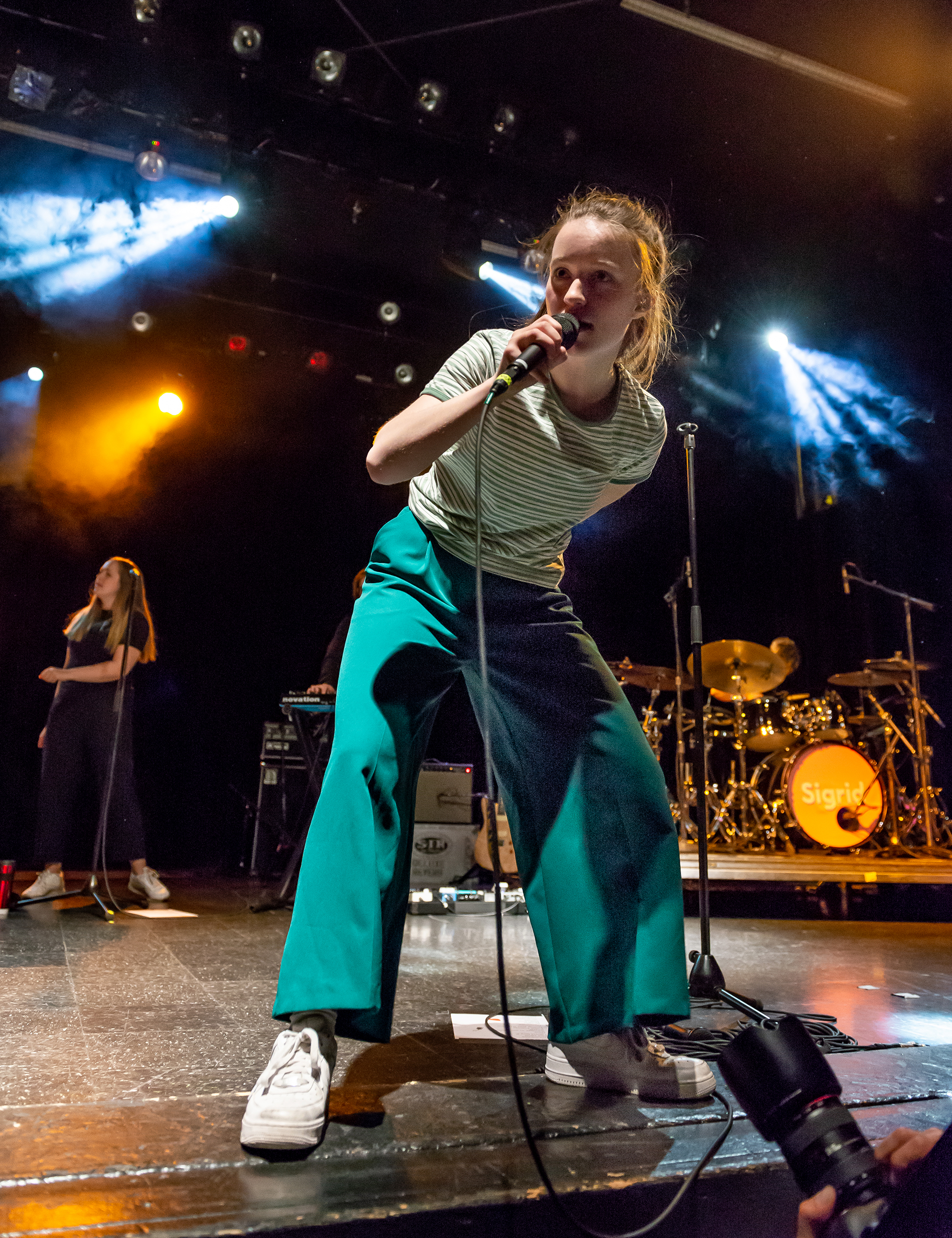 Sigrid performing live at the El Rey Theatre in Los Angeles, California, on Monday, April 16, 2018.